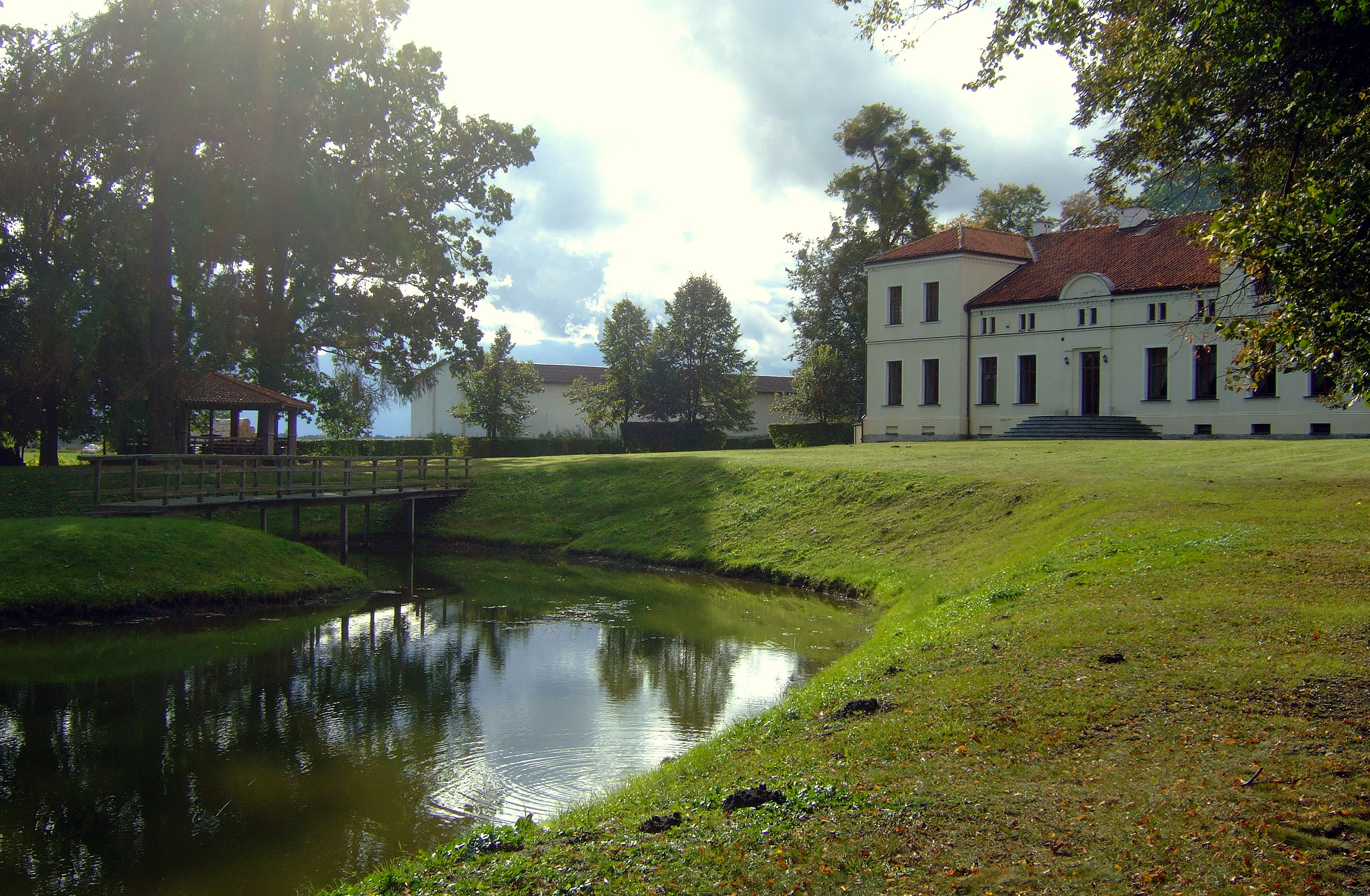 Palace in Łojdy (1877), vilalge in Warmian-Masurian Voivodeship in Poland, palace park and the pond.